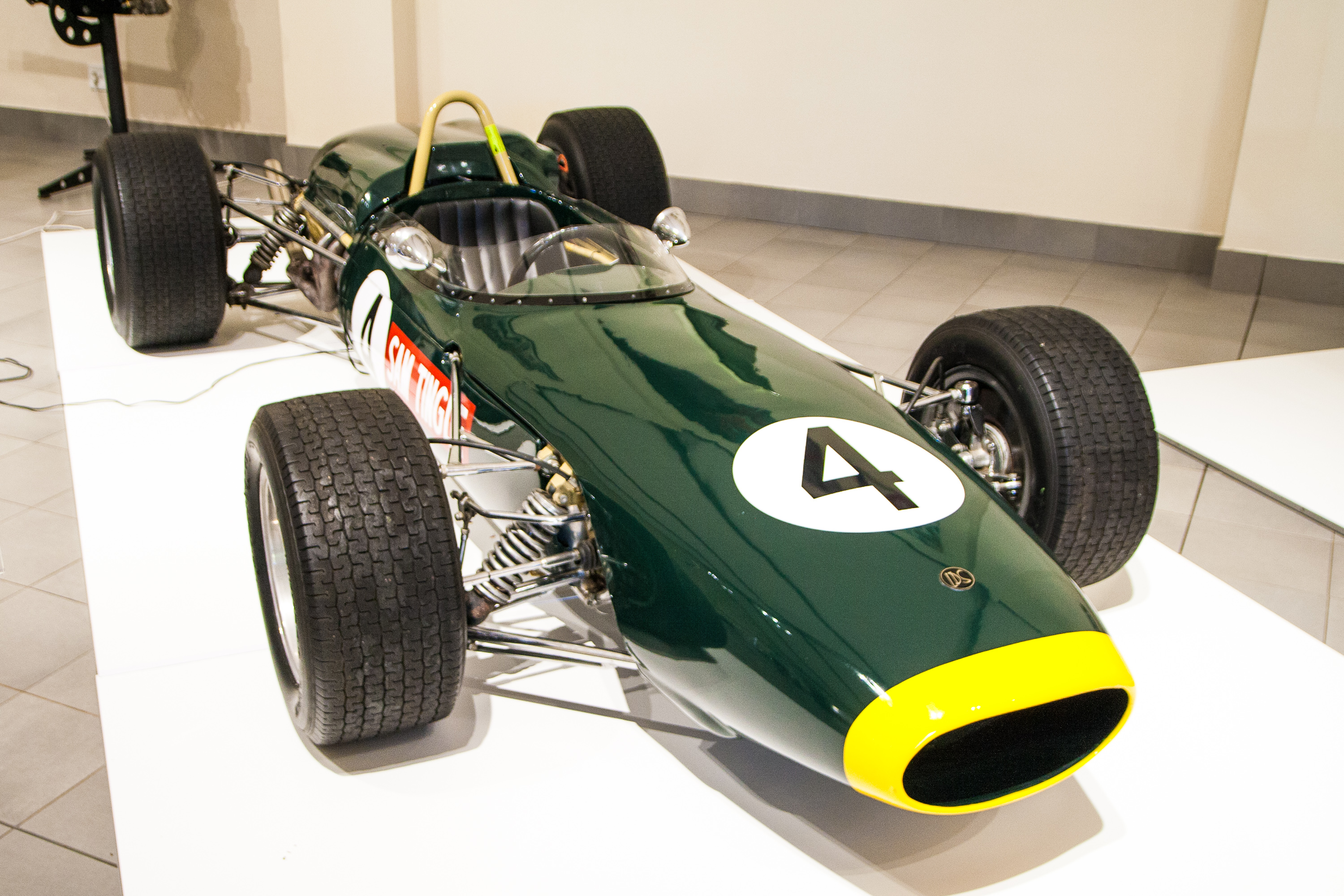 1965 Sam Tingle Formua 1 LDS Race Car-1.jpg